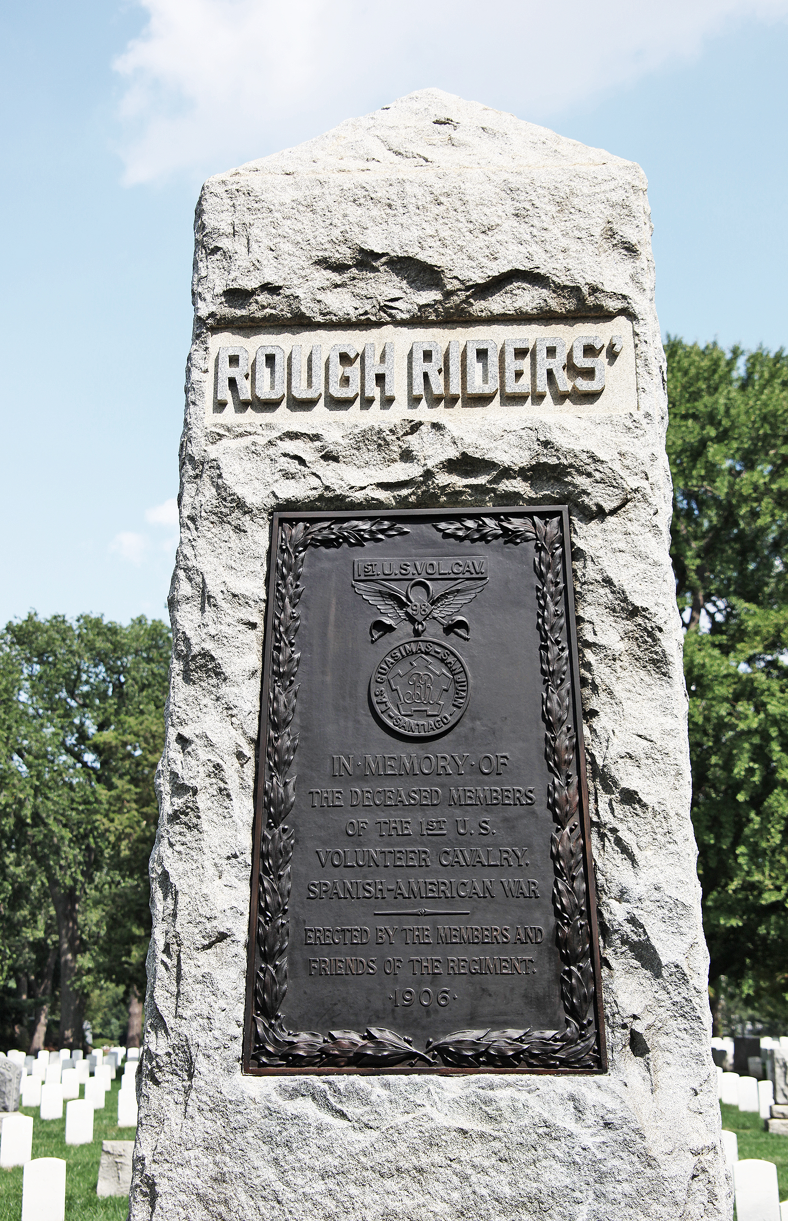 Face of the Rough Riders Monument at Arlington National Cemtery in Arlington, Virginia, in the United States. The monument is in Section 22 of the cemetery. The 1st U.S. Volunteer Cavalry, better known by its nickname the "Rough Riders," was a unit of the U.S. Army which fought in the Spanish-American War. It was formed and led by then-Colonel Leonard Wood. The second-in-command was former Assistant Secretary of the Navy, Theodore Roosevelt. After Wood was promoted to lead the 1st Cavalary, Roosevelt assumed command of the unit. It made a famous charge up San Juan Hill in Cuba, and saw action in two other battles. It was desgined and erected by "friends of the regiment" in 1906. The 10-foot-high rough grey granite obelisk rests on a trapezoidal base with a polished upper surface. The monument, which faces west, is inscribed at the top with the phrase "ROUGH RIDERS" and a brass plaque dedicating the memorial to the dead of the 1st U.S. Volunteer Cavalry. The south face of the memorial is polished, but contains no inscription. The back of the memorial is polished, and contains a listing of the battles in which the unit participated. The north face of the memorial is polished, and contains a listing of the names of the dead. The monument sits a few feet east of McPherson Drive.